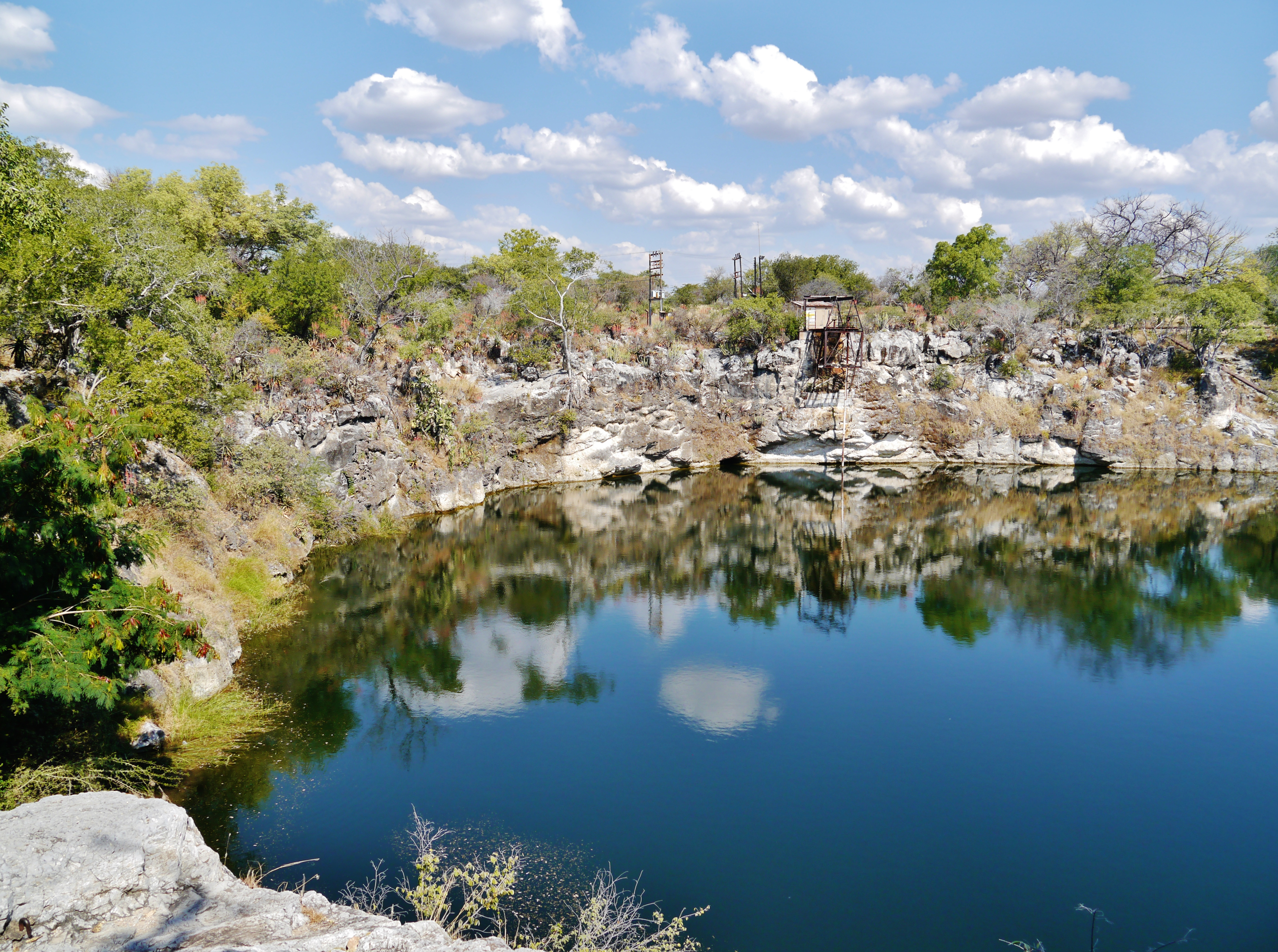 Otjikoto Lake, Region of Oshikoto, Namibia